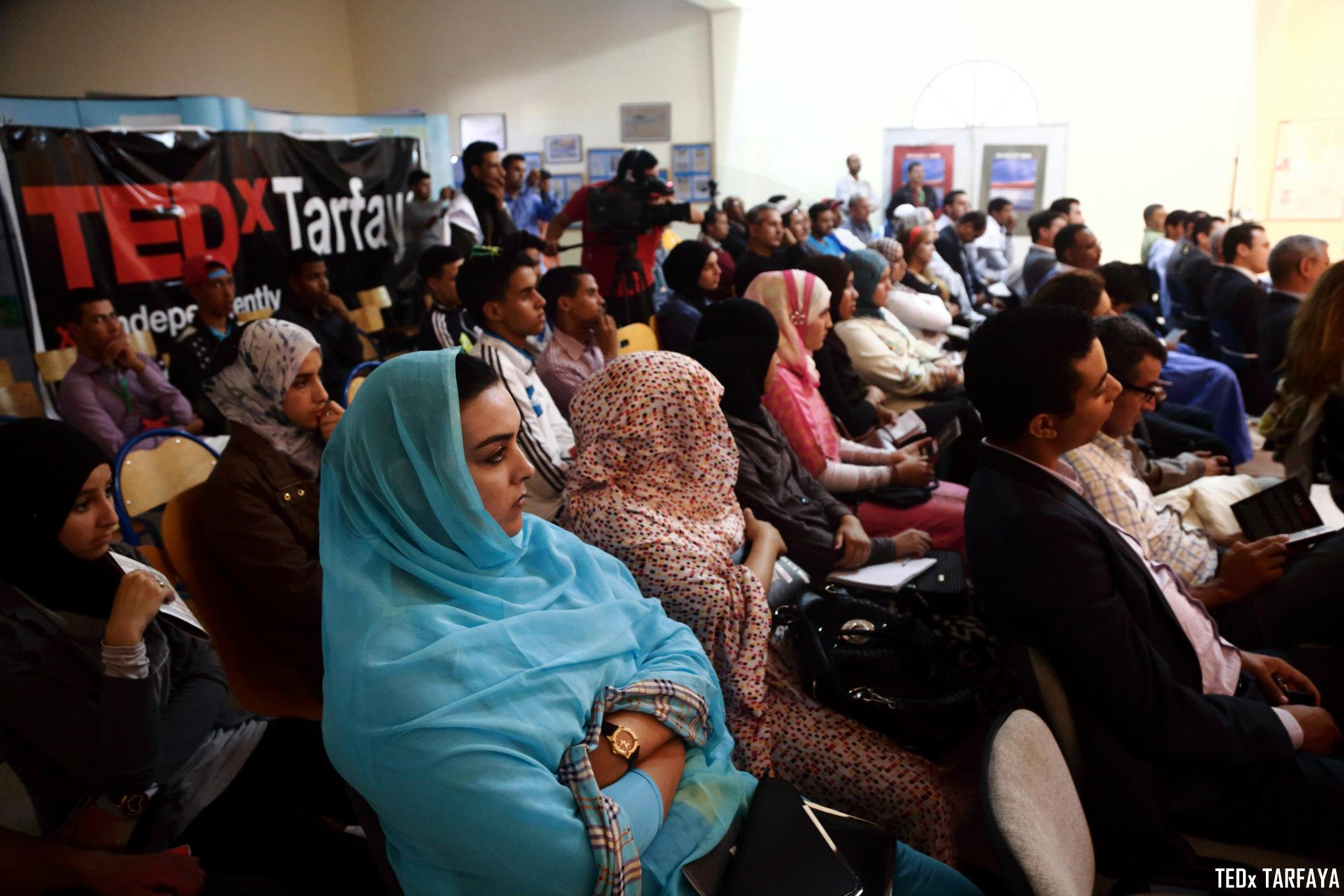 Some of the attendees at TEDxTarfaya conference on May 8 2013, Tarfaya, Morocco.